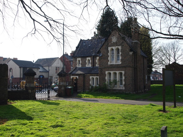 Nottingham - Basford, NG5